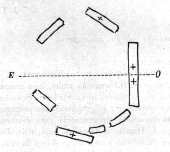 Schematic of the Anta da Arca, a dolmen in Arca, Oliveira de Frades, Portugal. Published in O Archeologo Português by José Leite de Vasconcelos in 1898 [1]